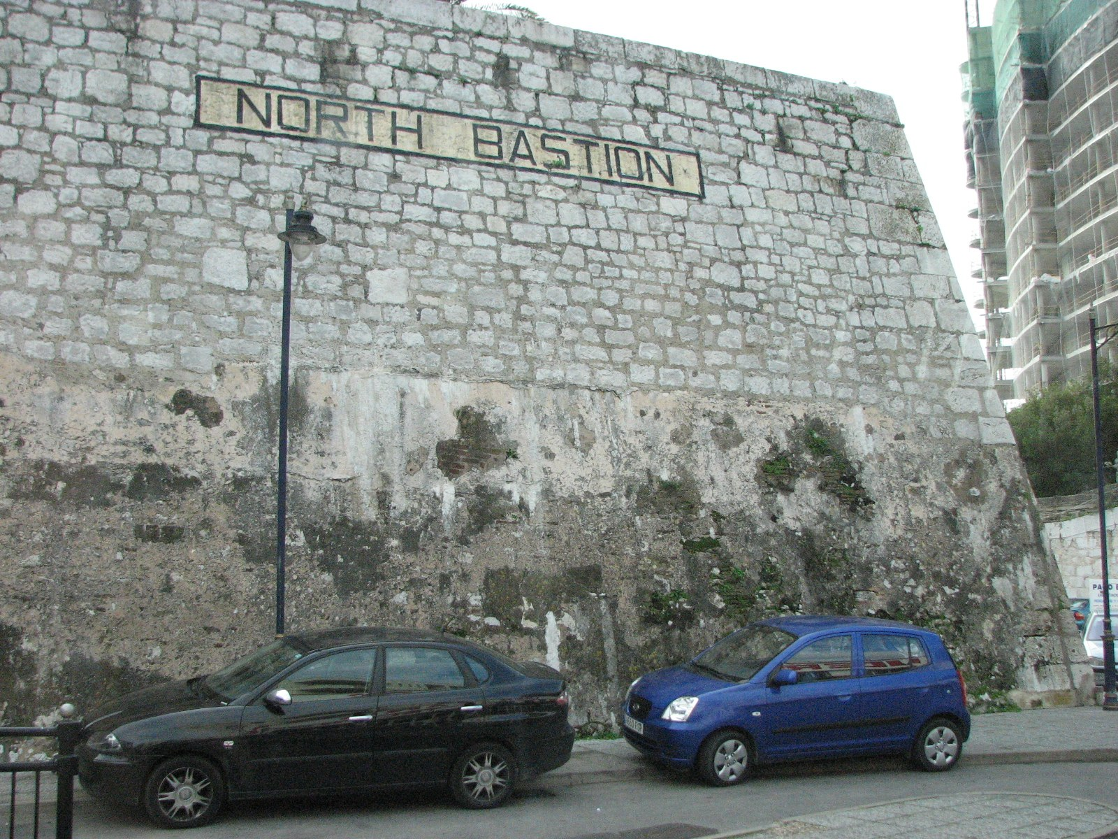 Gibraltar in 2008